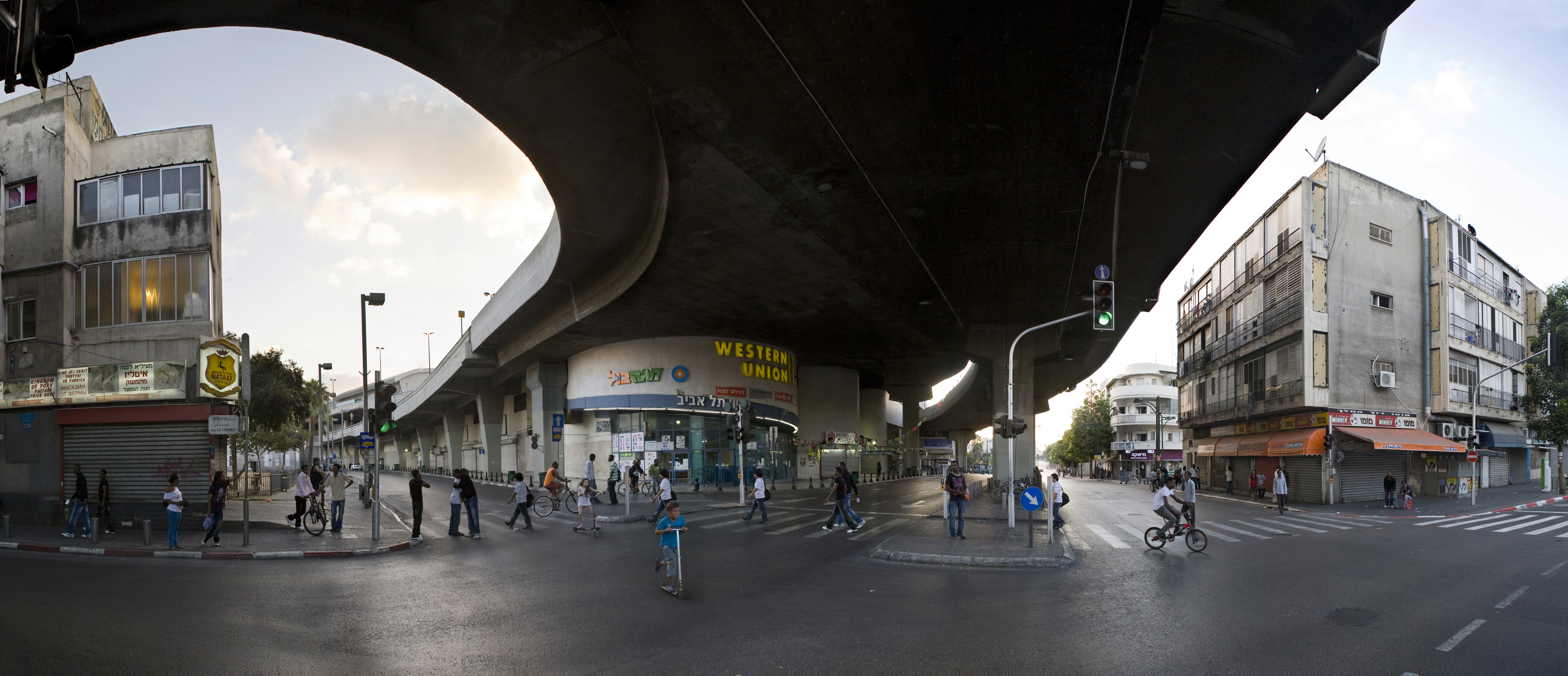 Yom Kippur in Neve Sha'anan neighborhood, Tel Aviv: Intersection of Levinsky St. and David Tzemach St., near the main entrance of Tel Aviv Central Bus Station, and under one of the platforms leading to the upper floors of the bus station. Residents affected by construction of the bridges leading to the station managed a long legal battle because of the decline in value of their apartments.